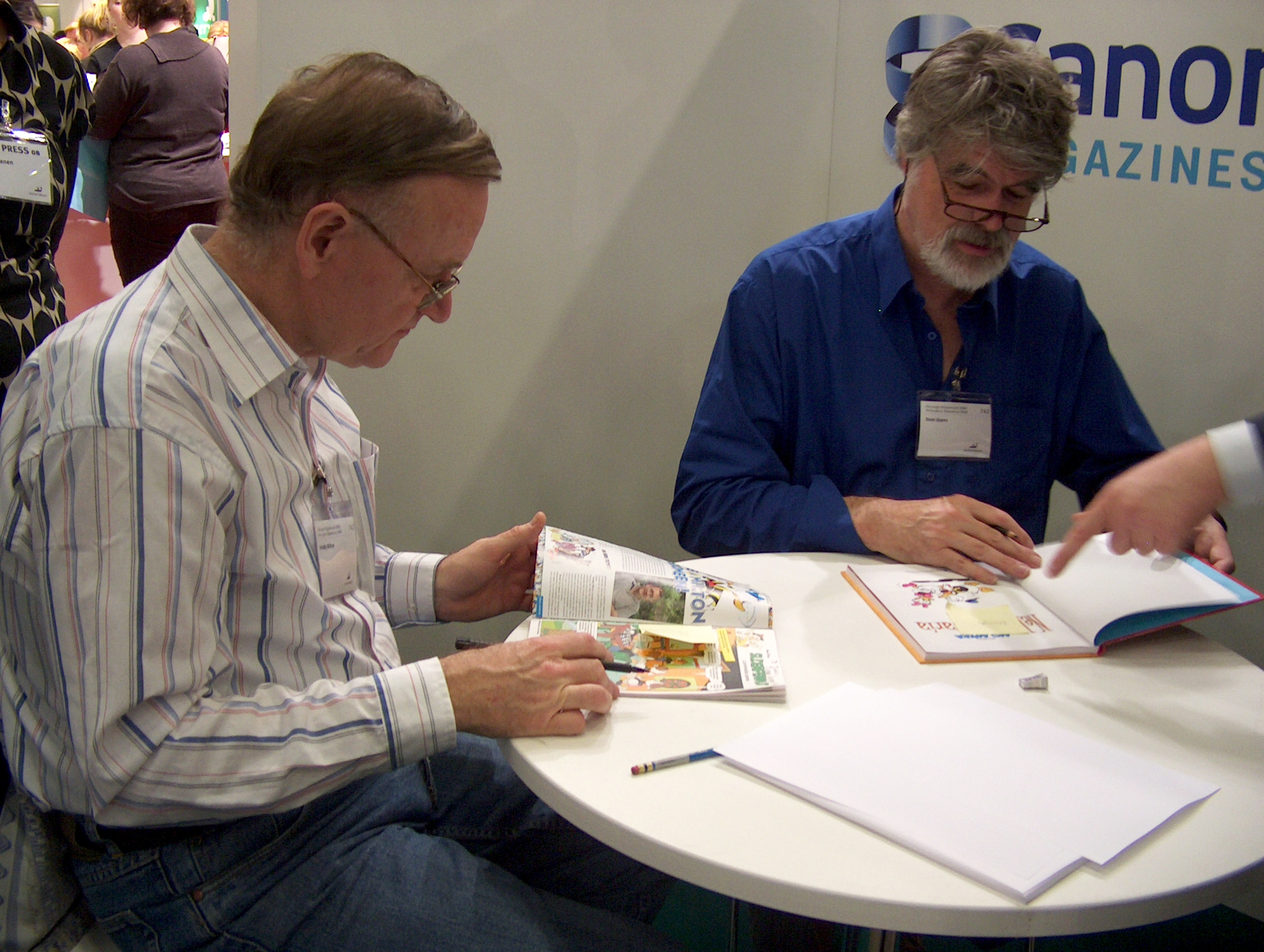 Cartoonists Freddy Milton from Denmark and Daan Jippes from Netherlands signing Donald Duck cartoons at the Helsinki Book Fair 2008